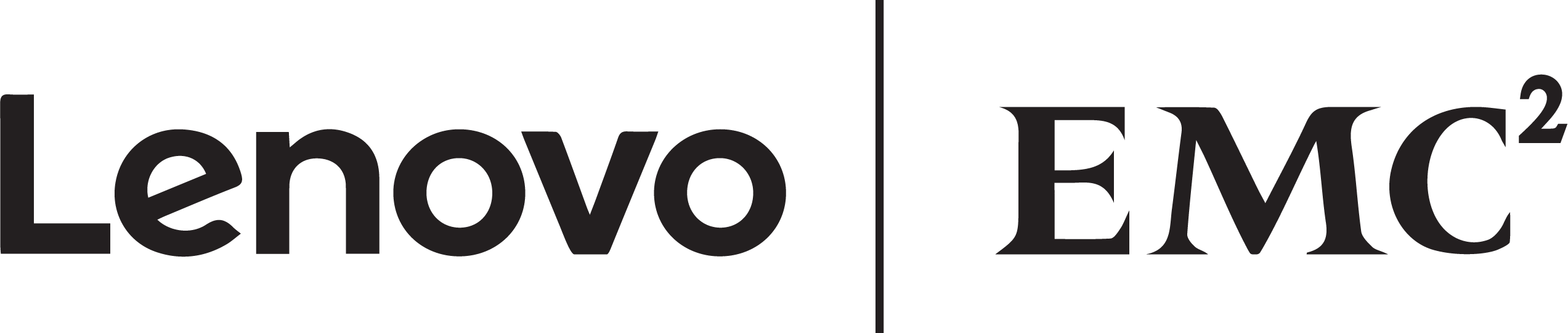 LenovoEMC's corporate new logo